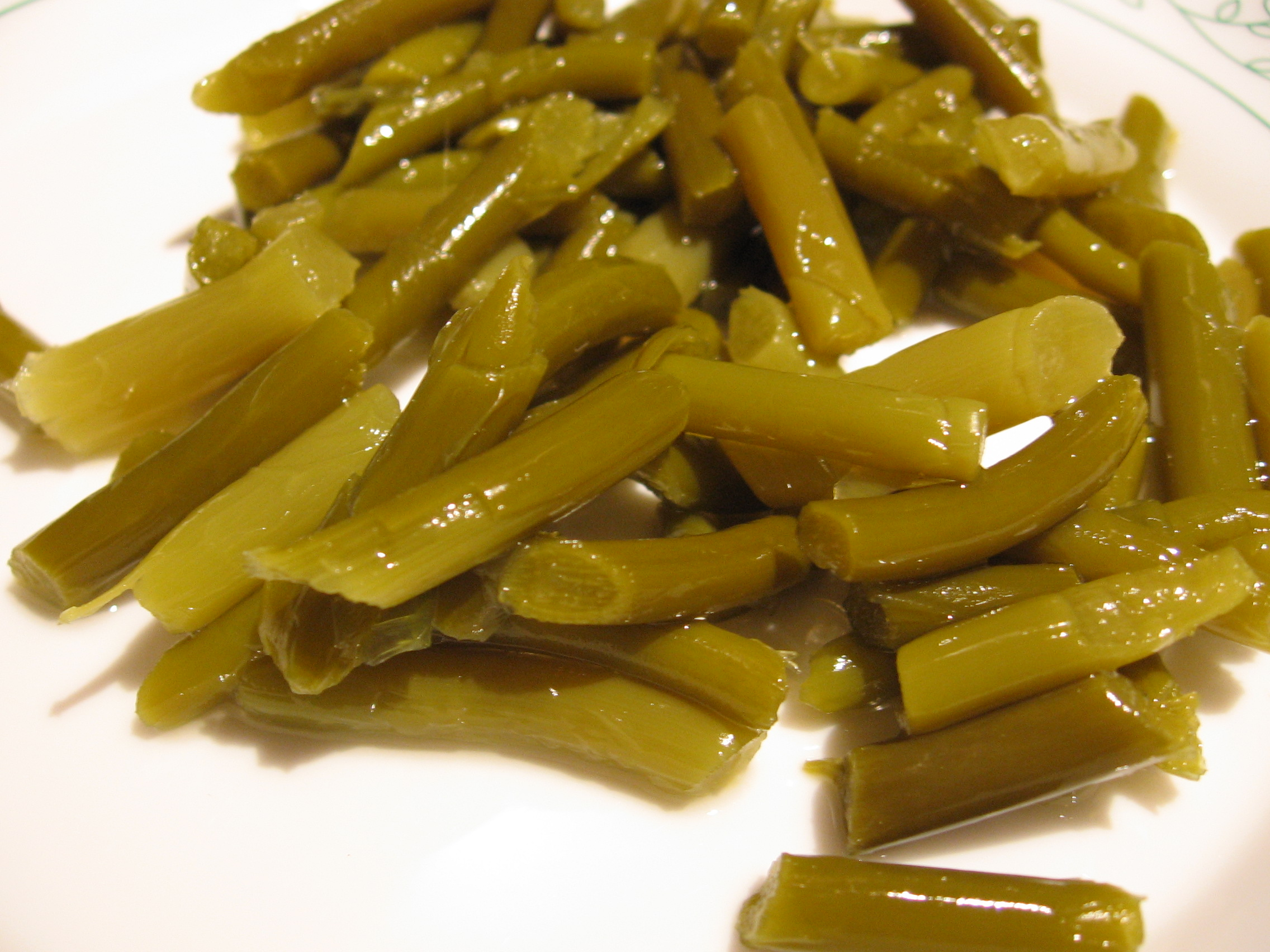 Garlic sprouts